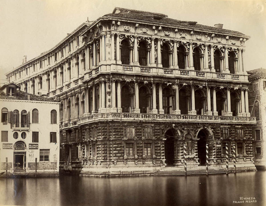 Carlo Naya (1822-1881) - "Venice. Palazzo Pesaro". Catalogue # 32.